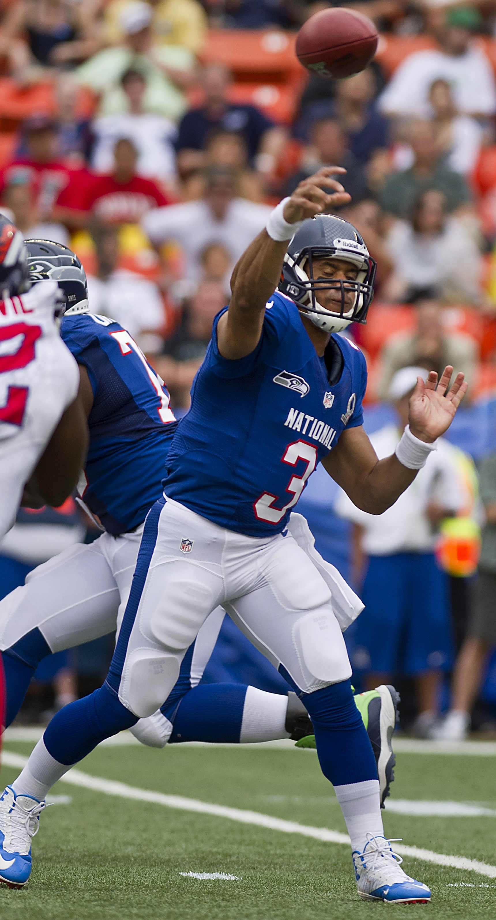 Russell Wilson in 2013 Pro Bowl.